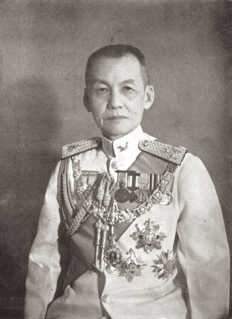 Field Marshal Phin Choonhavan